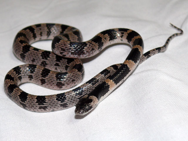 Japanese odd-tooth snake(Dinodon orientale) in Yamanashi Pref on 10/Oct/2007